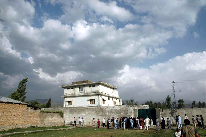 Osama bin Laden Compound